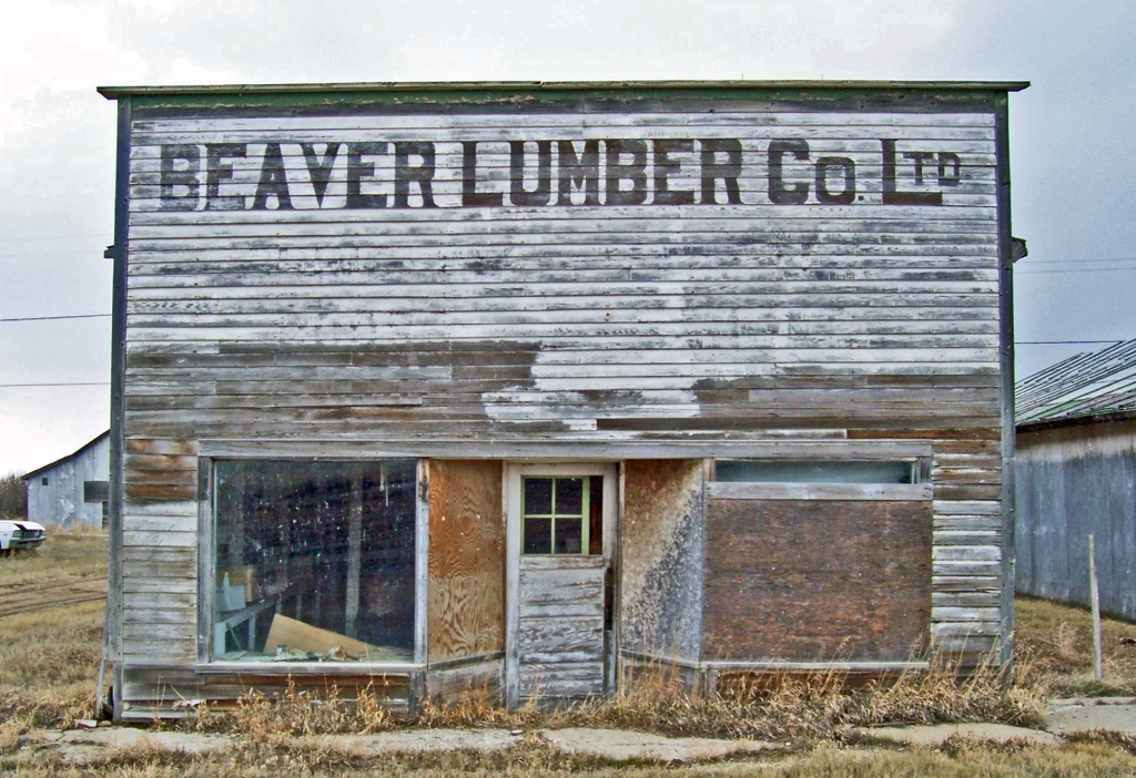 Beaver lumber Co. LTD. Robsart, Saskatchewan